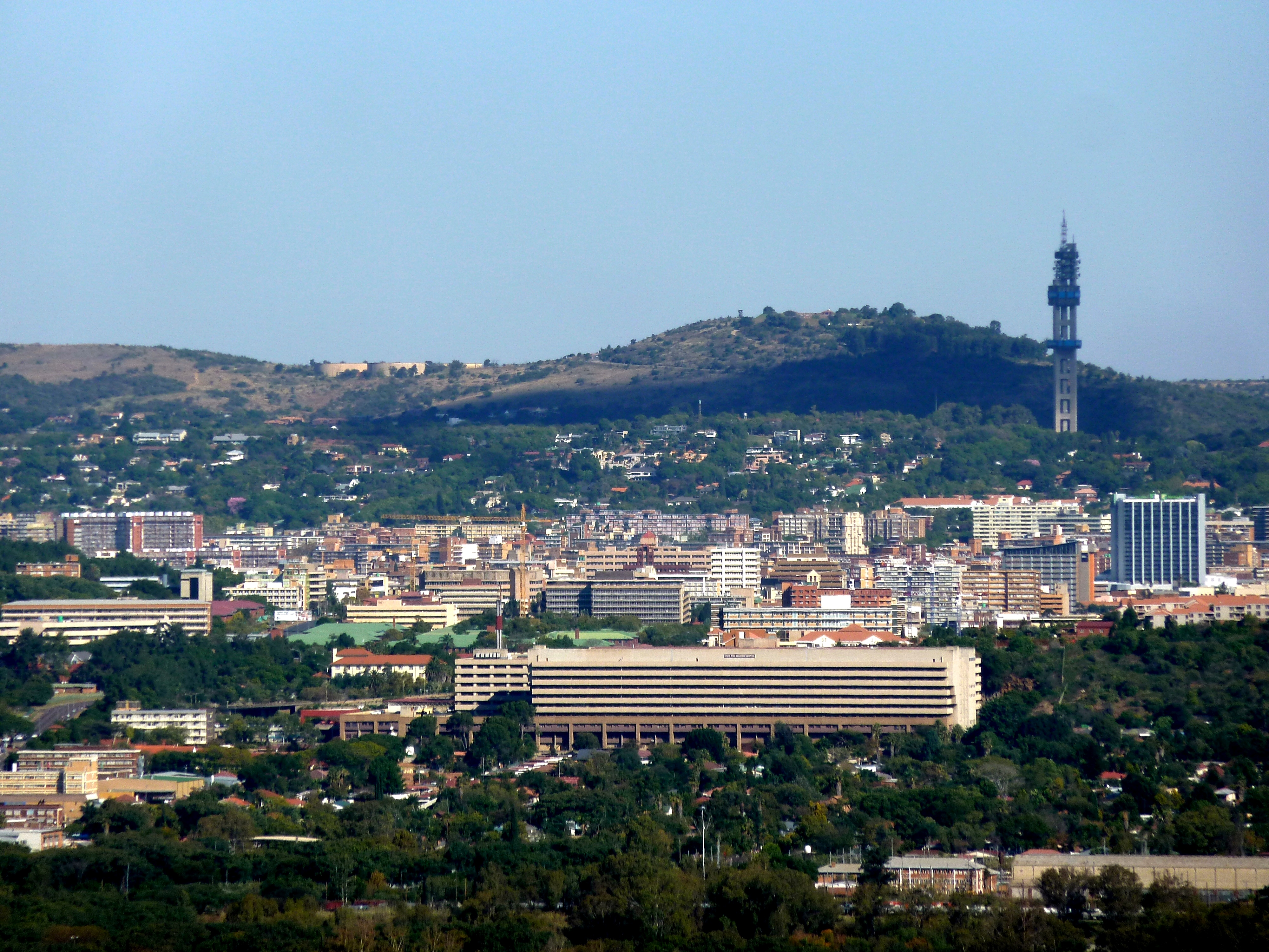 The suburbs of Prinshof 349-Jr, Arcadia, Sunnyside and Muckleneuk in Pretoria, may be seen in this view. The Steve Biko hospital, Lukasrand Tower and Klapperkop are prominent landmarks.